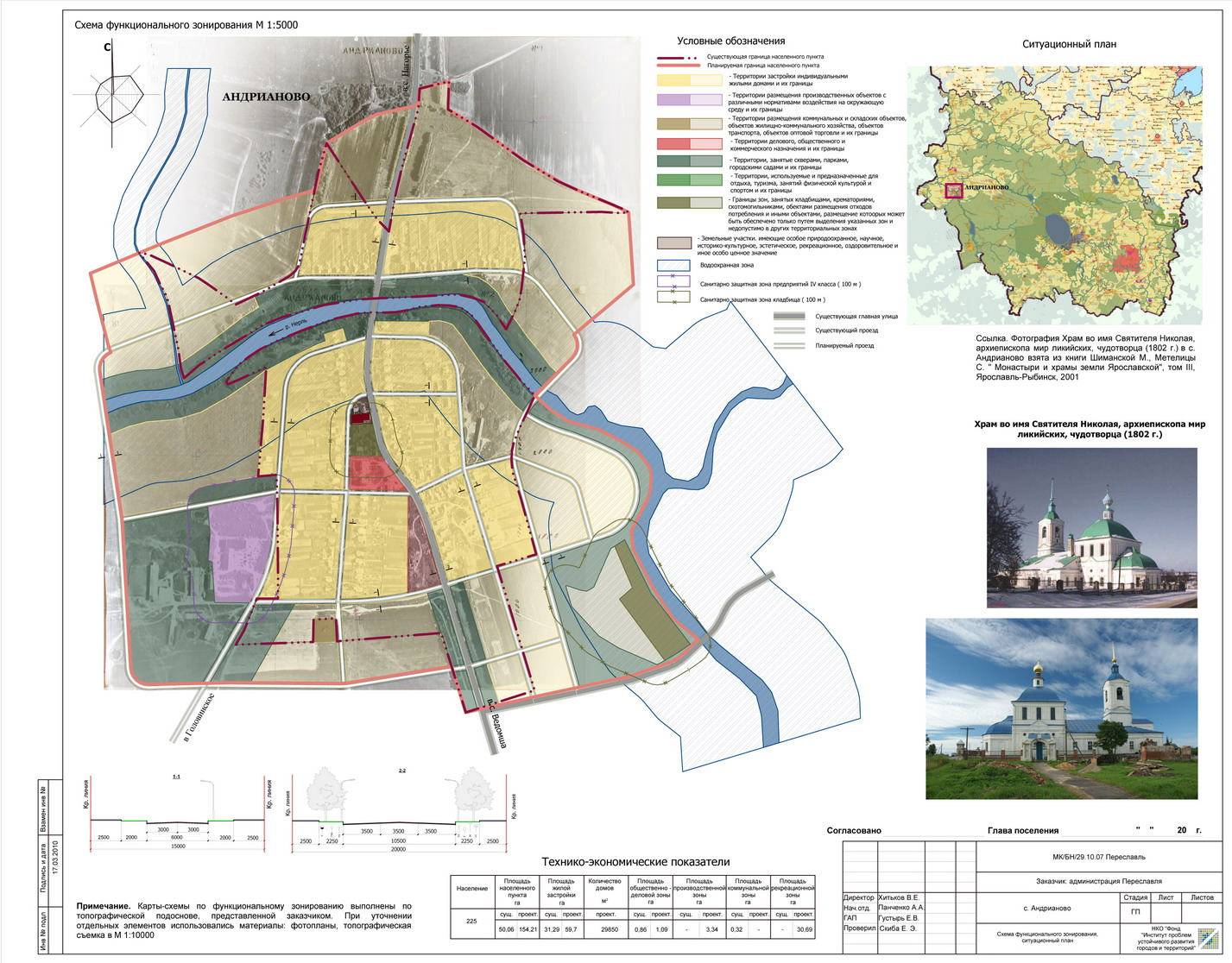 General plan of Nagorye rural settlement (Yaroslavl Oblast) 2008. Andrianovo.